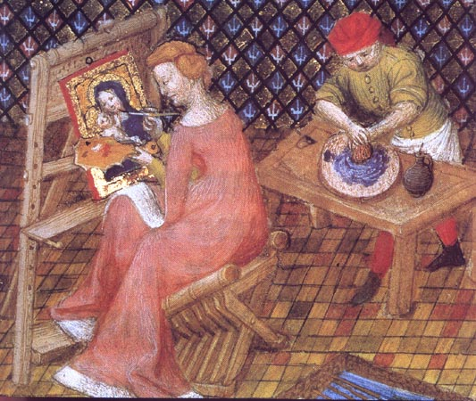 De mulieribus claris/ peintresse Thamar. Woman painter